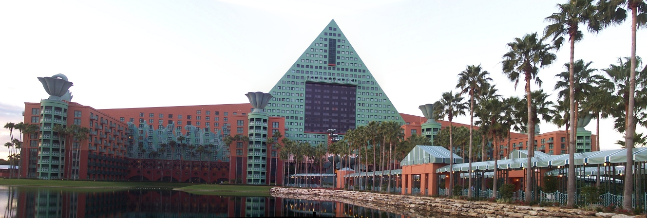 Dolphin Hotel, Walt Disney World, Lake Buena Vista, Florida.